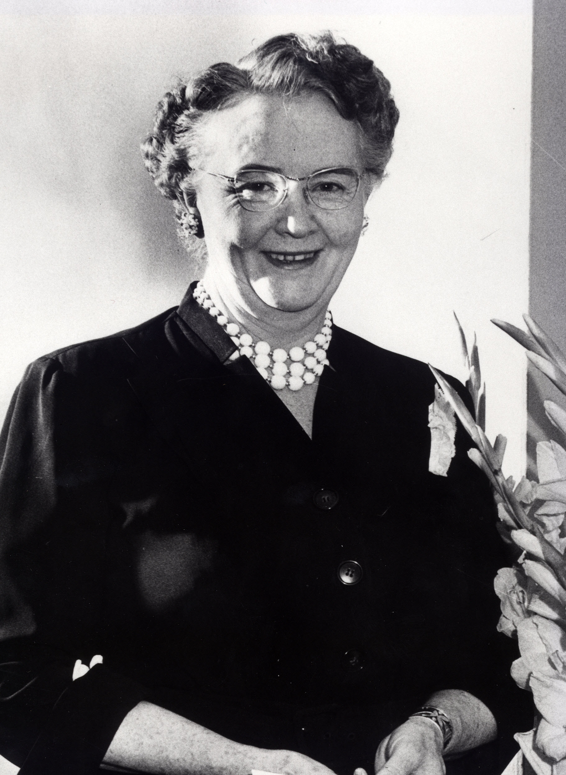 Former Congressman Georgia Lee Lusk of New Mexico.